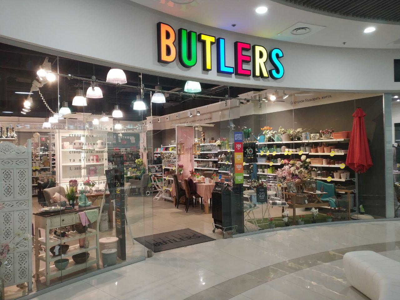 Butlers store in Kyiv, Ukraine